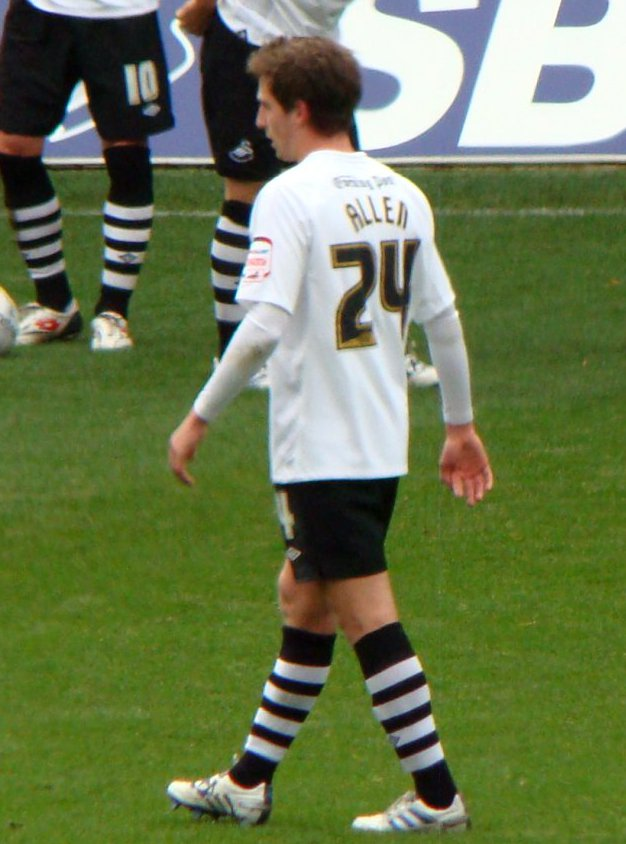 07/11/10 Cardiff V Swansea, Championship, Cardiff City Stadium, Cardiff, Wales